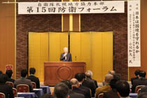 Kazuhisa Ogawa, Project Professor of the Global Center for Asian and Regional Research, University of Shizuoka, gave a lecture in Sapporo City, Hokkaidō on December 14, 2013.